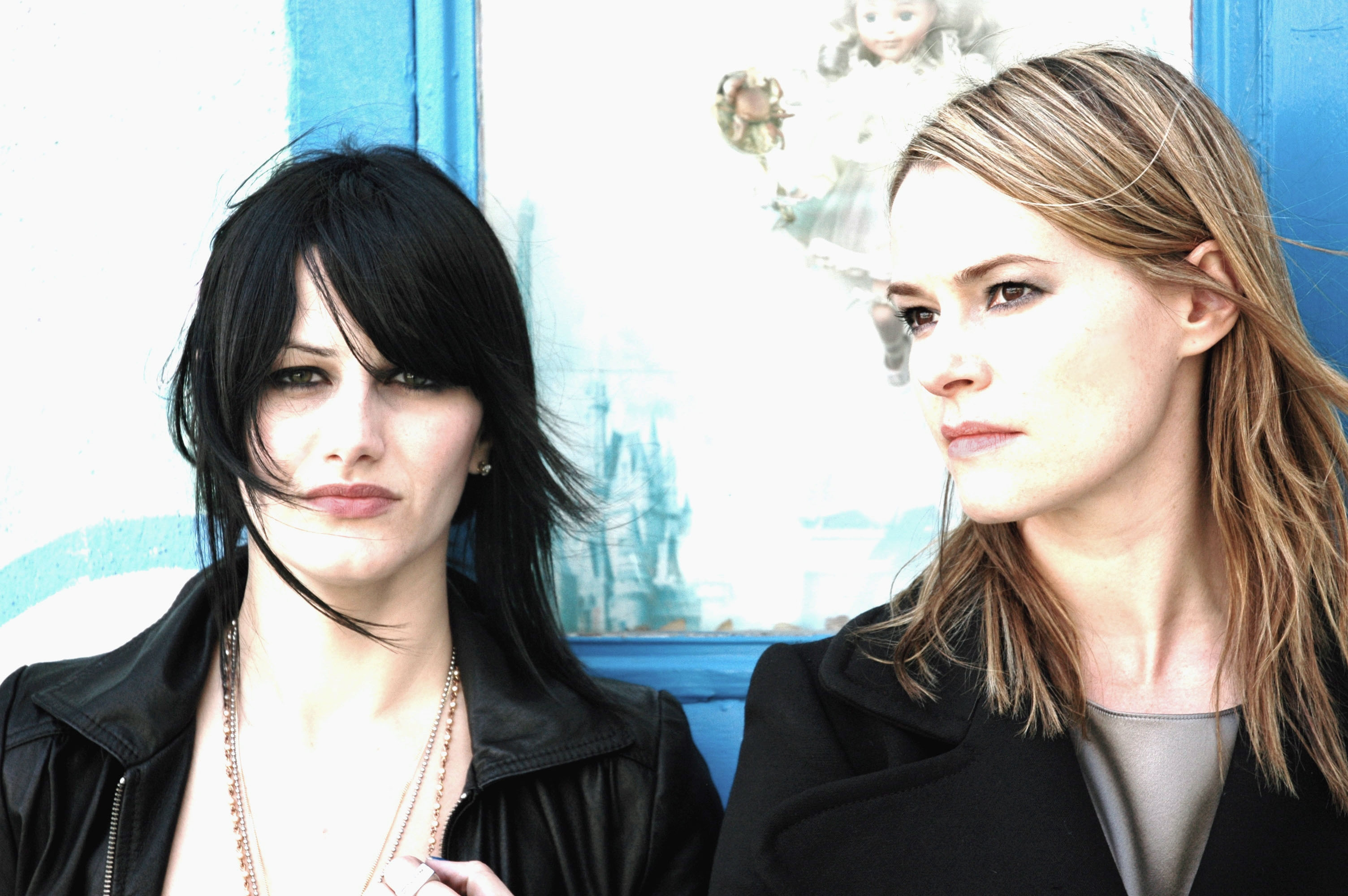 Indiepop band Uh Huh Her.